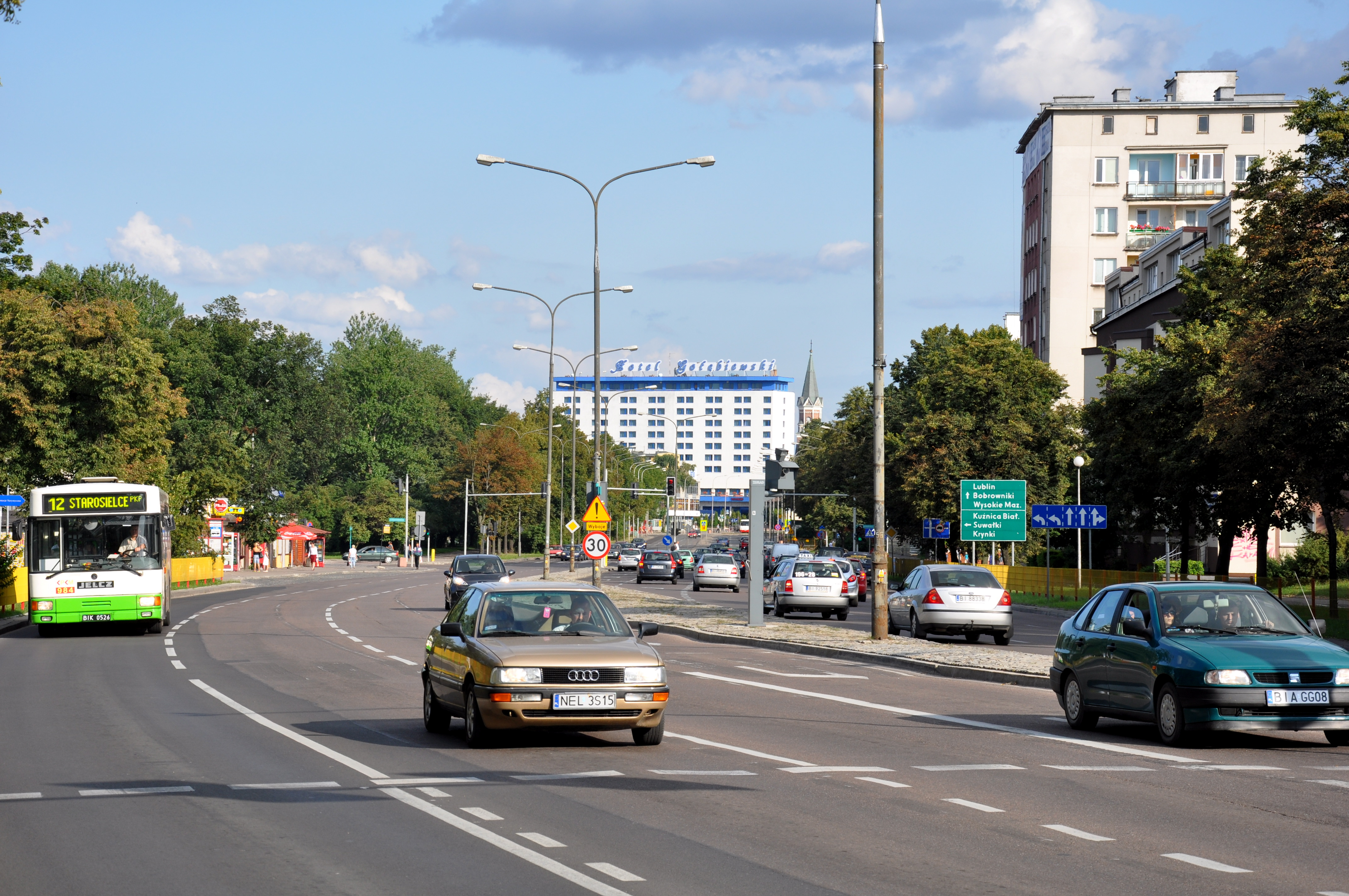 Pilsudski Avenue in Bialystok, Podlaskie Voivodeship. Jelcz M121M bus (#984) built 1997, KPKM Białystok operator.